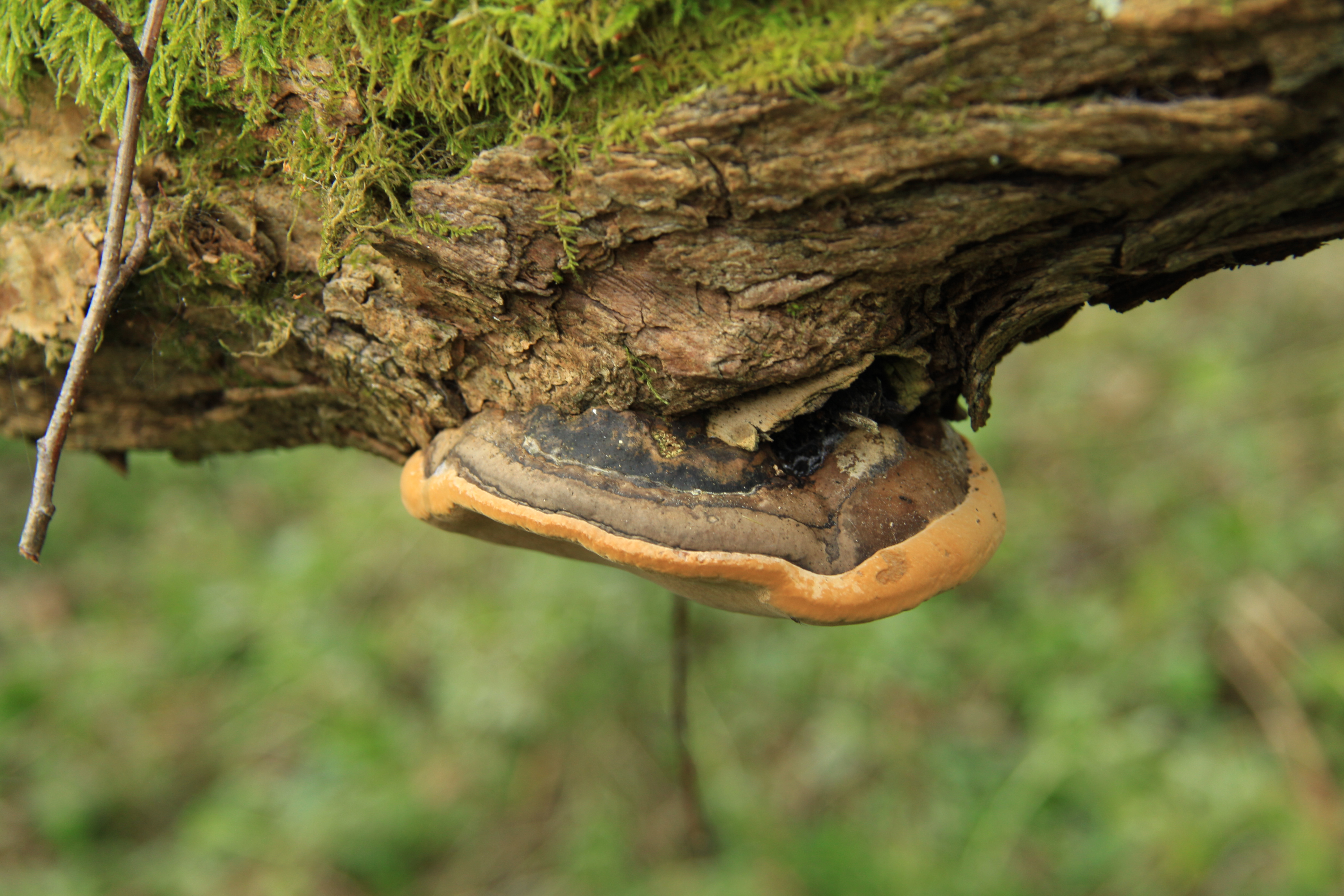 Phellinus igniarius. Nature reserve Dobročkovské hadce near Dobročkov village partly lying on the area of CHKO Blanský les, Prachatice District, Czech Republic Project: Chráněná území.